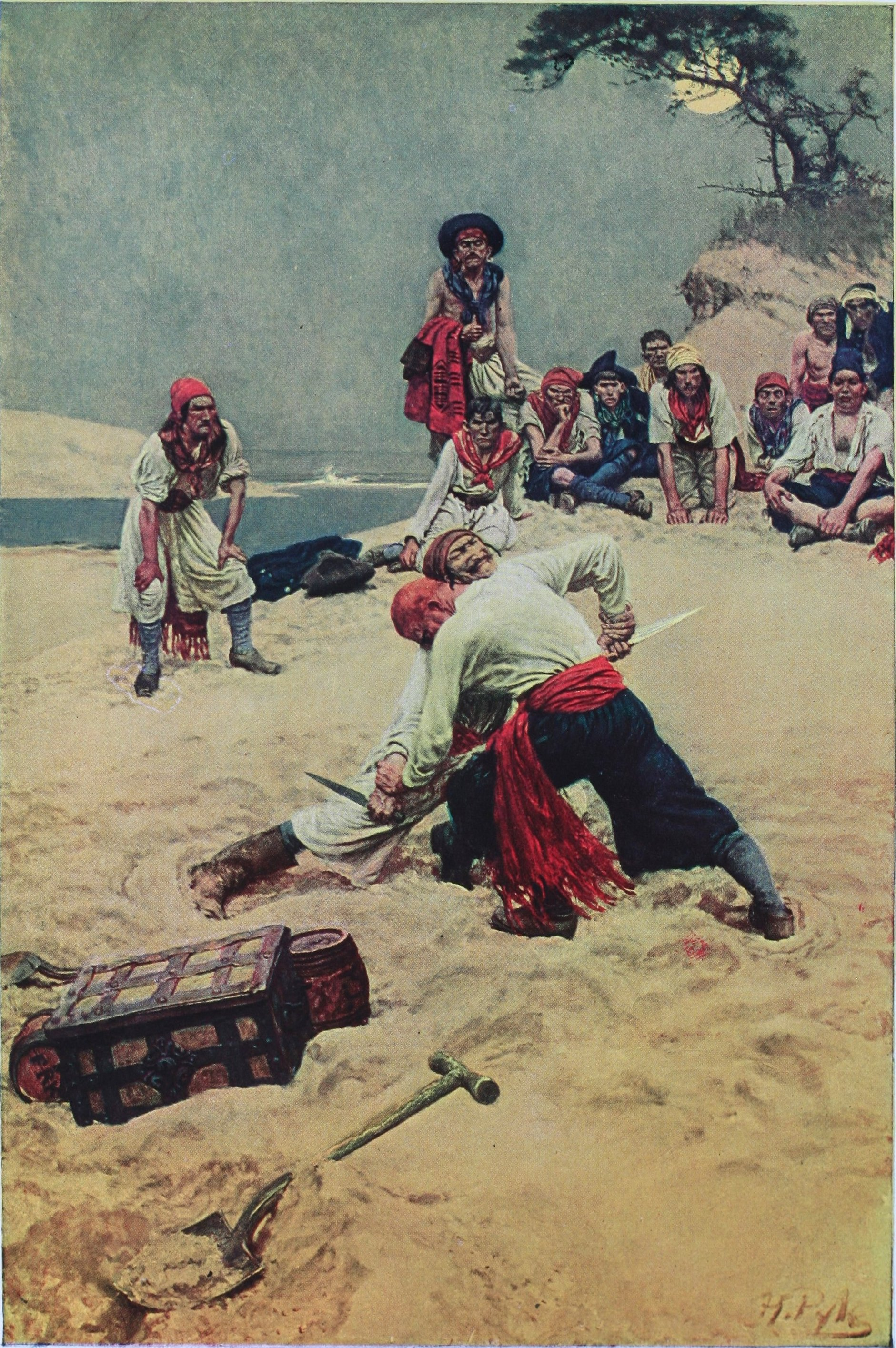 illustration of pirates fighting to be the captain.